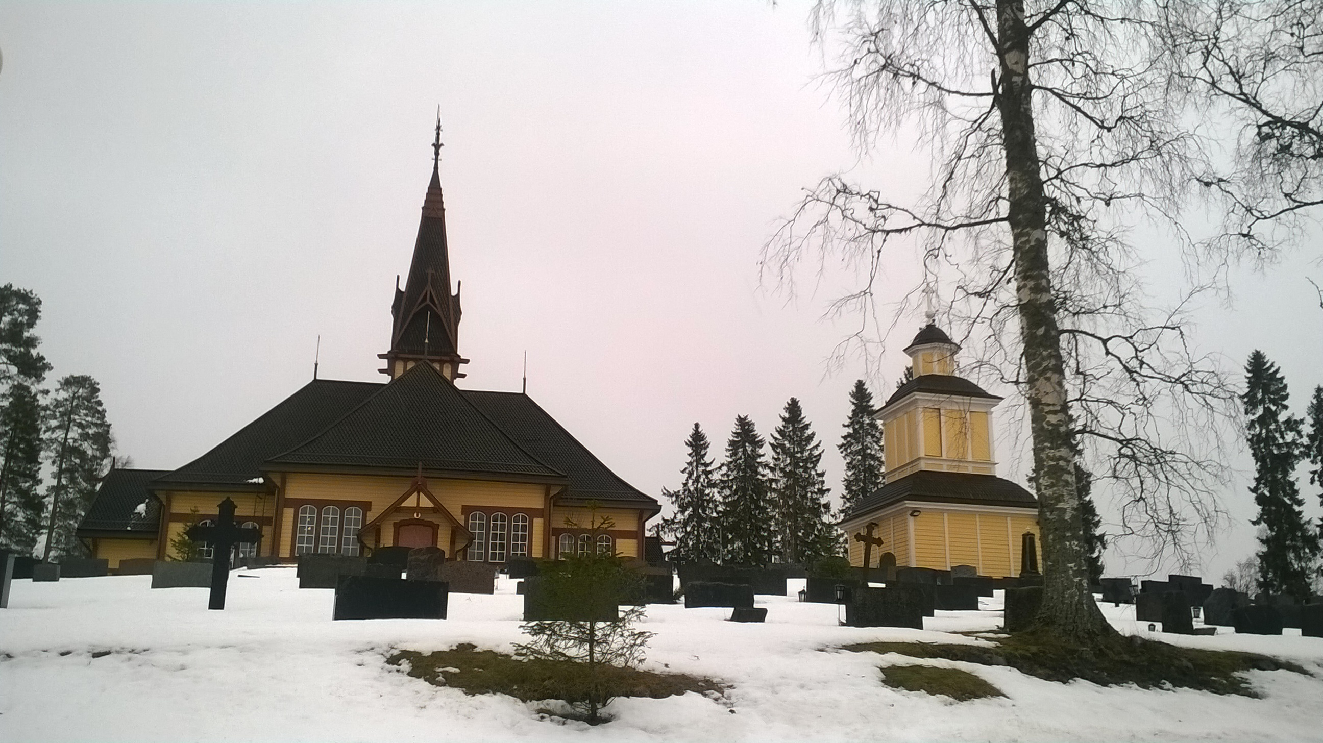 Perho Church in Perho, Finland